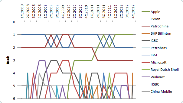 Graph of ranks of companies in Forbes 500 quaterly list